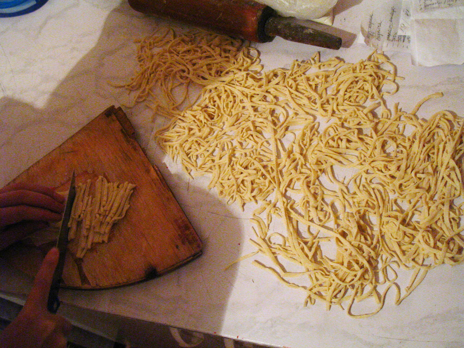 Kyrgyz kesme dough being cut Кыргызча: Кесилип жаткан кыргыз кесме камыры